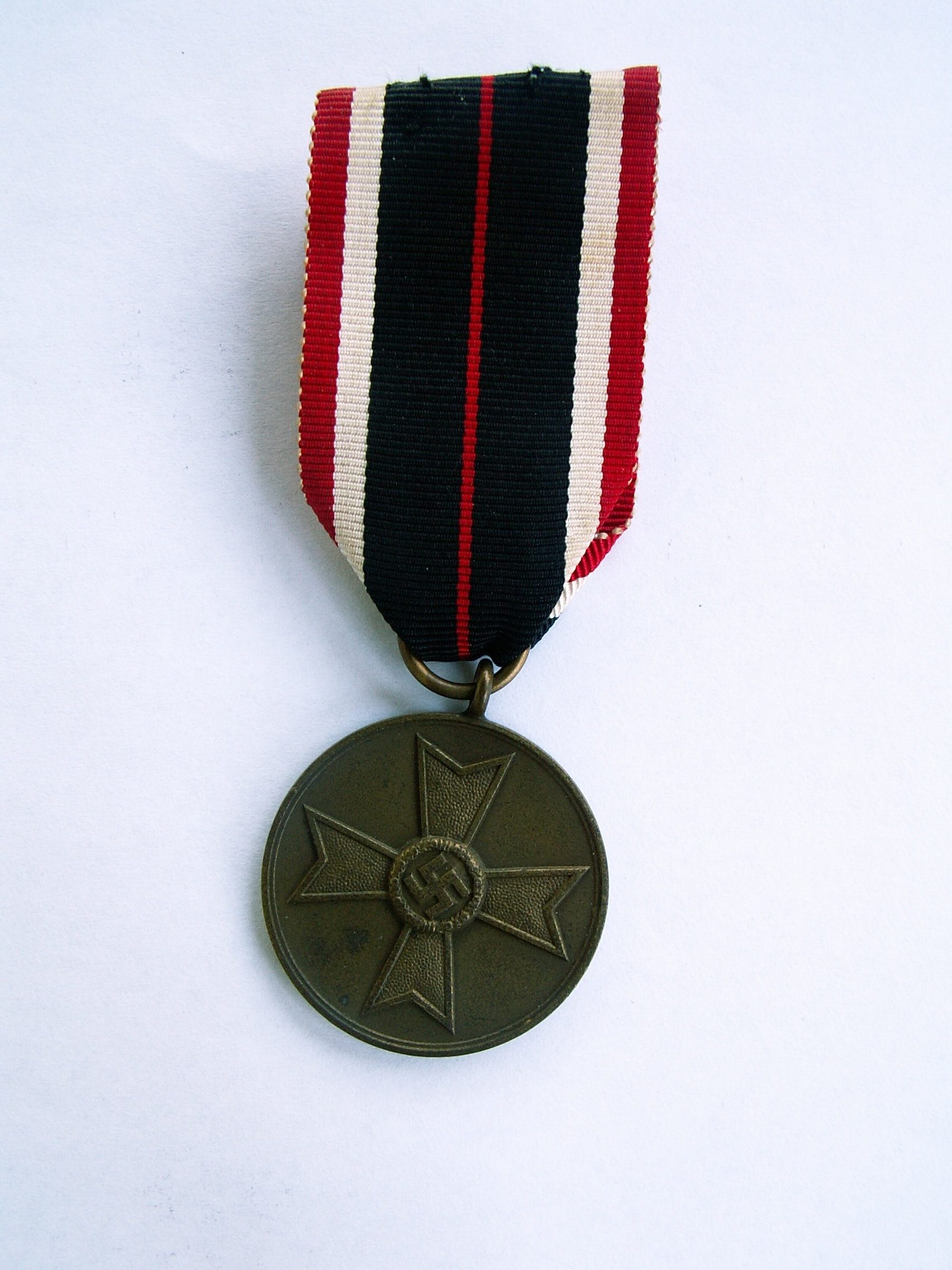 War merit medal, Third Reich medal from WW2